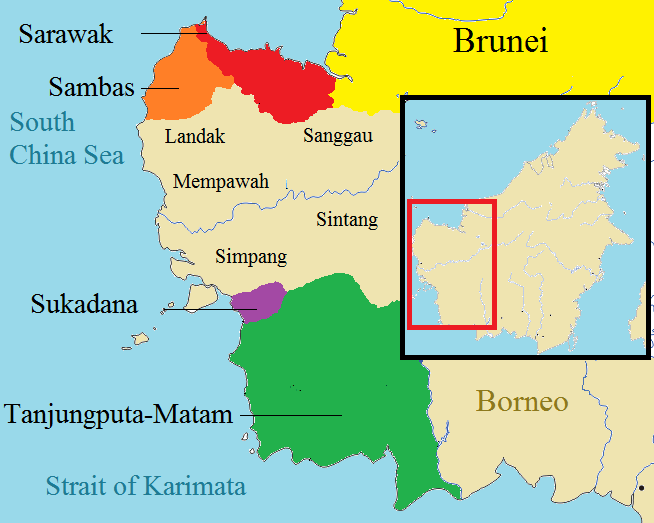 Update on the map.